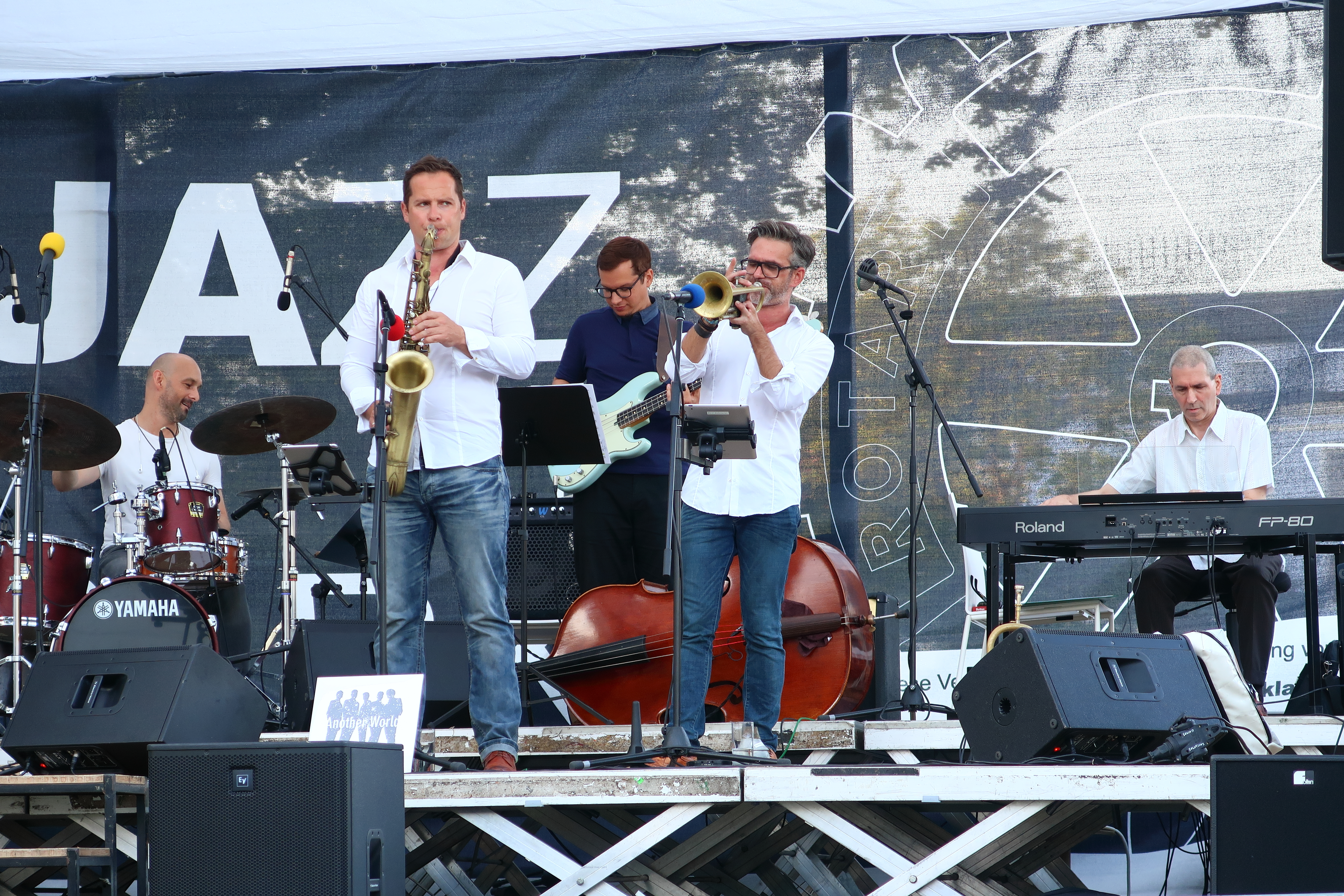 A concert photograph showing the band "Jazzodrom" performing at the "Jazz im Park" concert in the park of the Vöcklabruck music school (Österreich) on 2016-09-10. Line up (ltr): Christian Lettner (dr), Andreas See (sax), Christian Wendt (b), Gerd Rahstorfer (tpt), Helmar Hill (p)